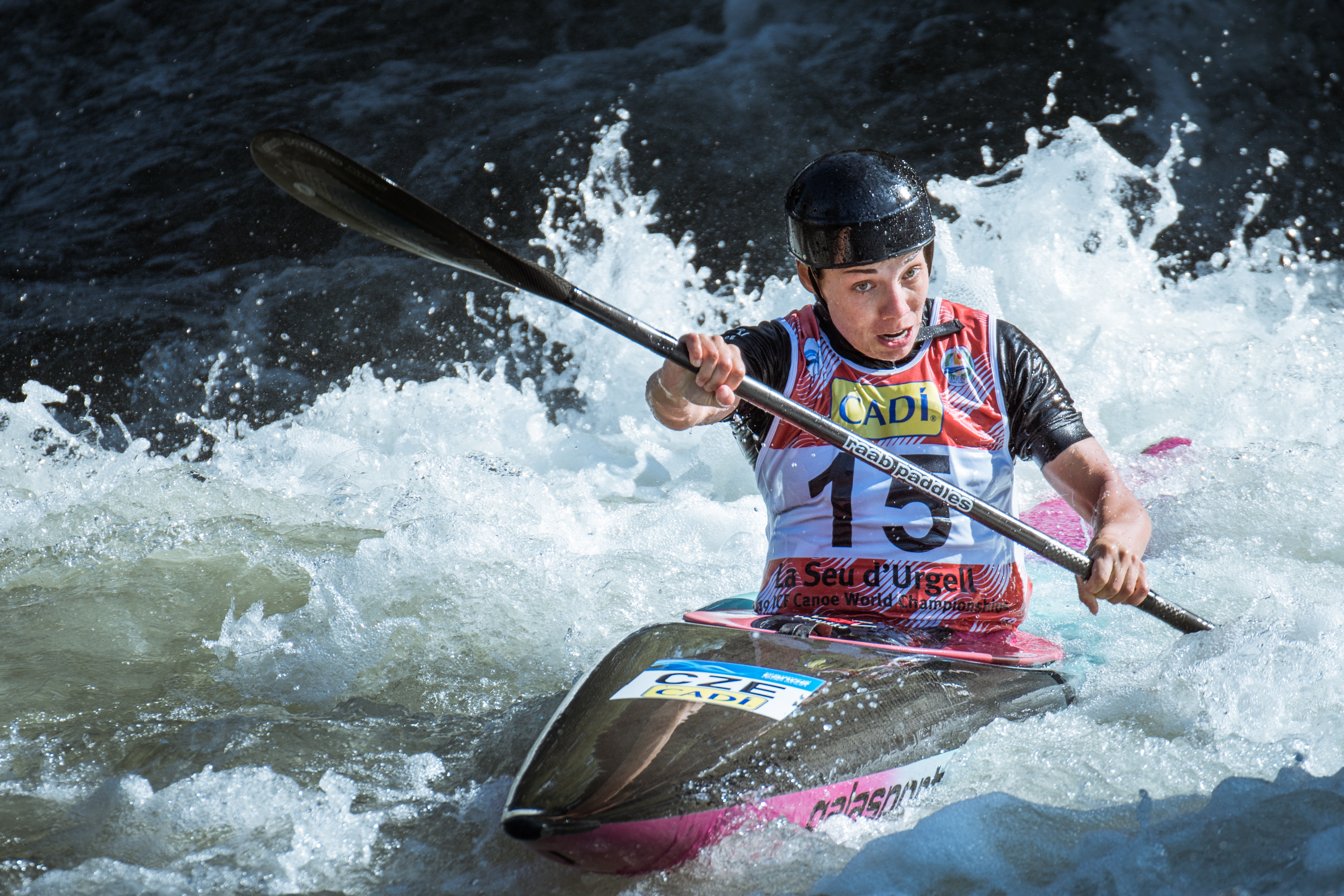 Veronika Vojtová during the 2019 Canoe Slalom World Championships in La Seu d'Urgell, Spain.